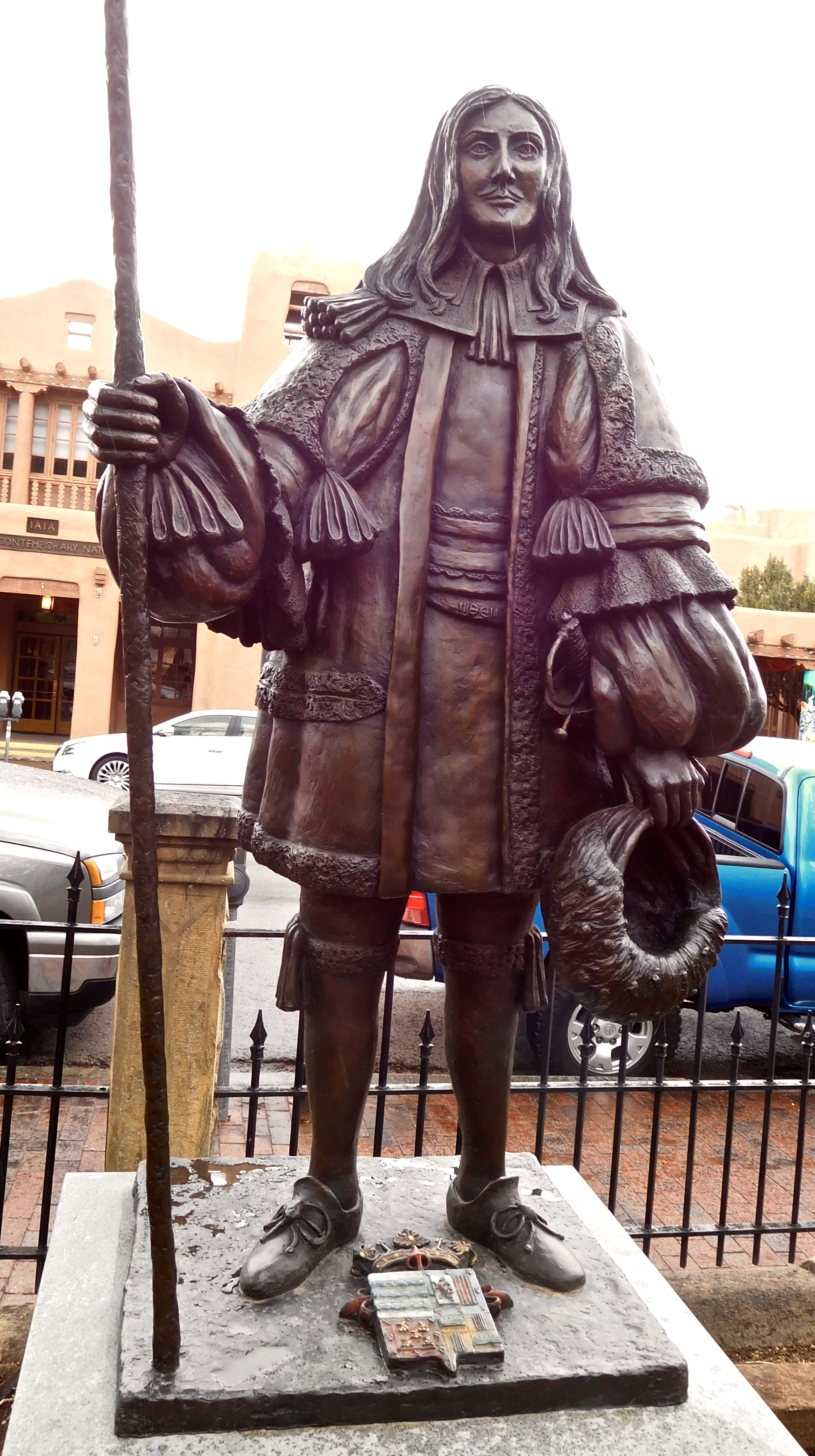 Diego de Vargas Zapata y Luján Ponce de León y Contreras (1643 in Spain – 1704), commonly known as Don Diego de Vargas, was a Spanish Governor of the New Spain territory of Santa Fe de Nuevo México, to the US states of New Mexico and Arizona, titular 1690–1695, effective 1692–1696 and 1703–1704. He is most famous for leading the reconquest of the territory in 1692 following the Pueblo Revolt of 1680. This reconquest is commemorated annually during the Fiestas de Santa Fe in the city of Santa Fe. This is in the courtyard by the Cathedral Basilica of Saint Francis of Assisi, commonly known as Saint Francis Cathedral, is a Roman Catholic cathedral in downtown Santa Fe, New Mexico. ... The cathedral was built by Archbishop Jean Baptiste Lamy between 1869 and 1886 on the site of an older adobe church, La Parroquia (built in 1714–1717).